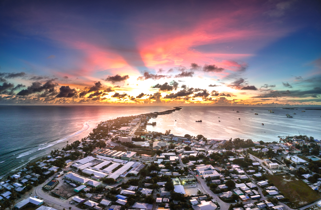 Sunset in Majuro, over Delap-Uliga-Darrit in the Marshall Islands from a drone.